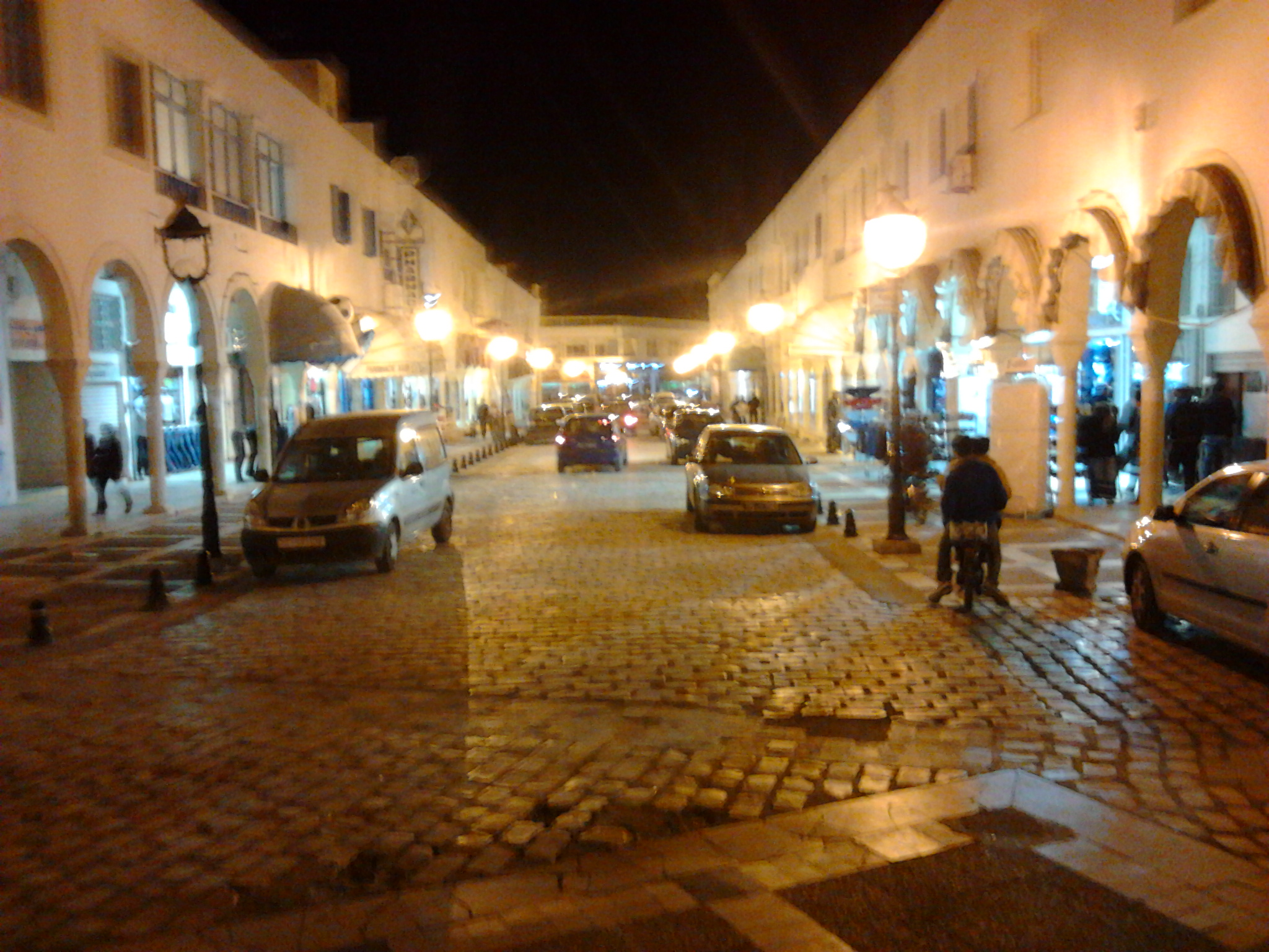 old city - Monastir